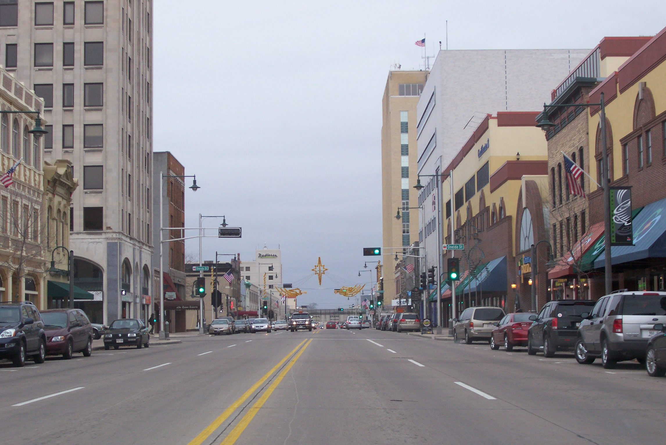 Looking west at downtown Appleton, Wisconsin, USA. Cropped from the original. The Zuelke Building is the tall building on the left just past the nearest intersection (Oneida Street).